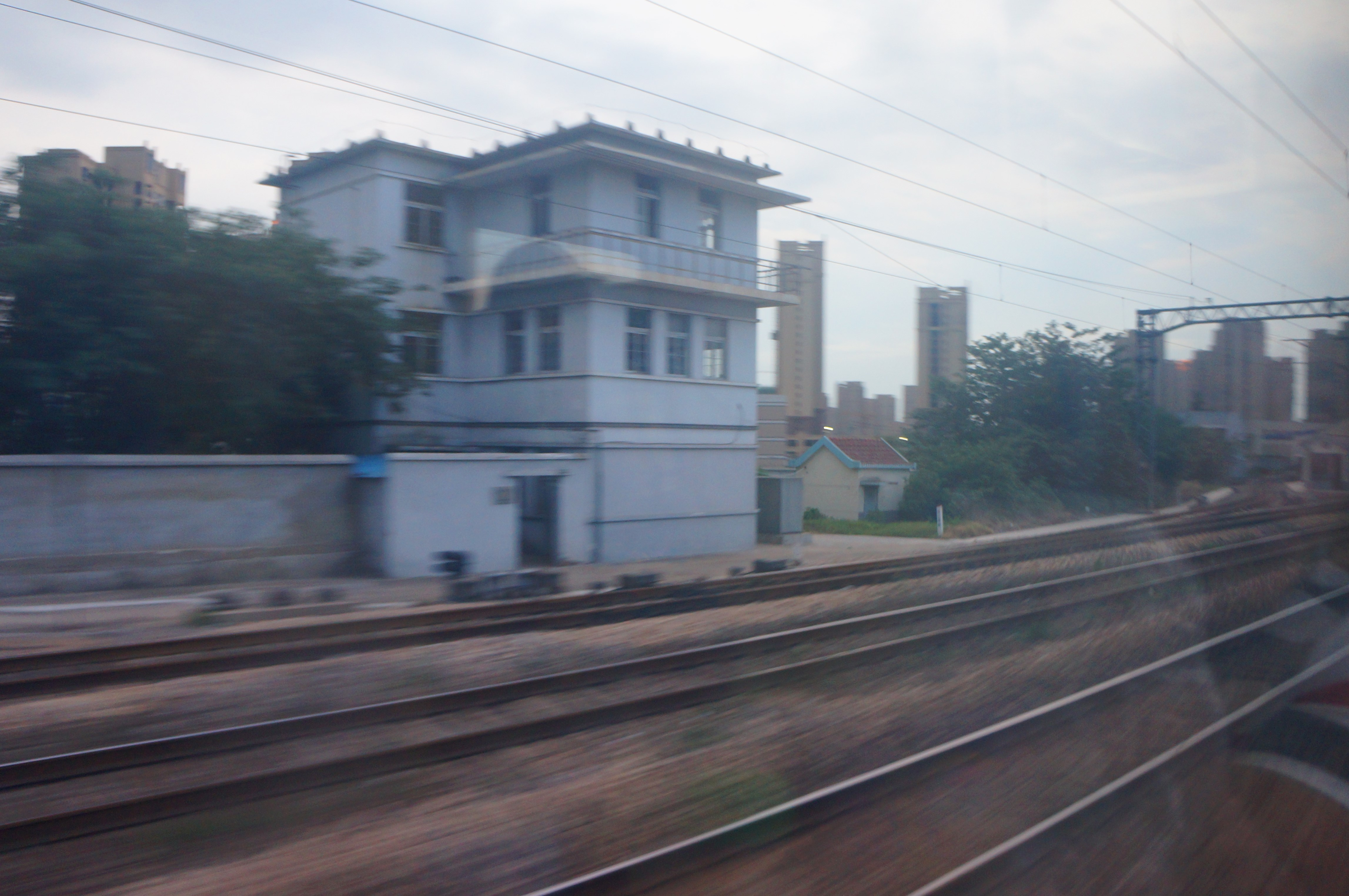 201806 Conductor of Guzhen Station